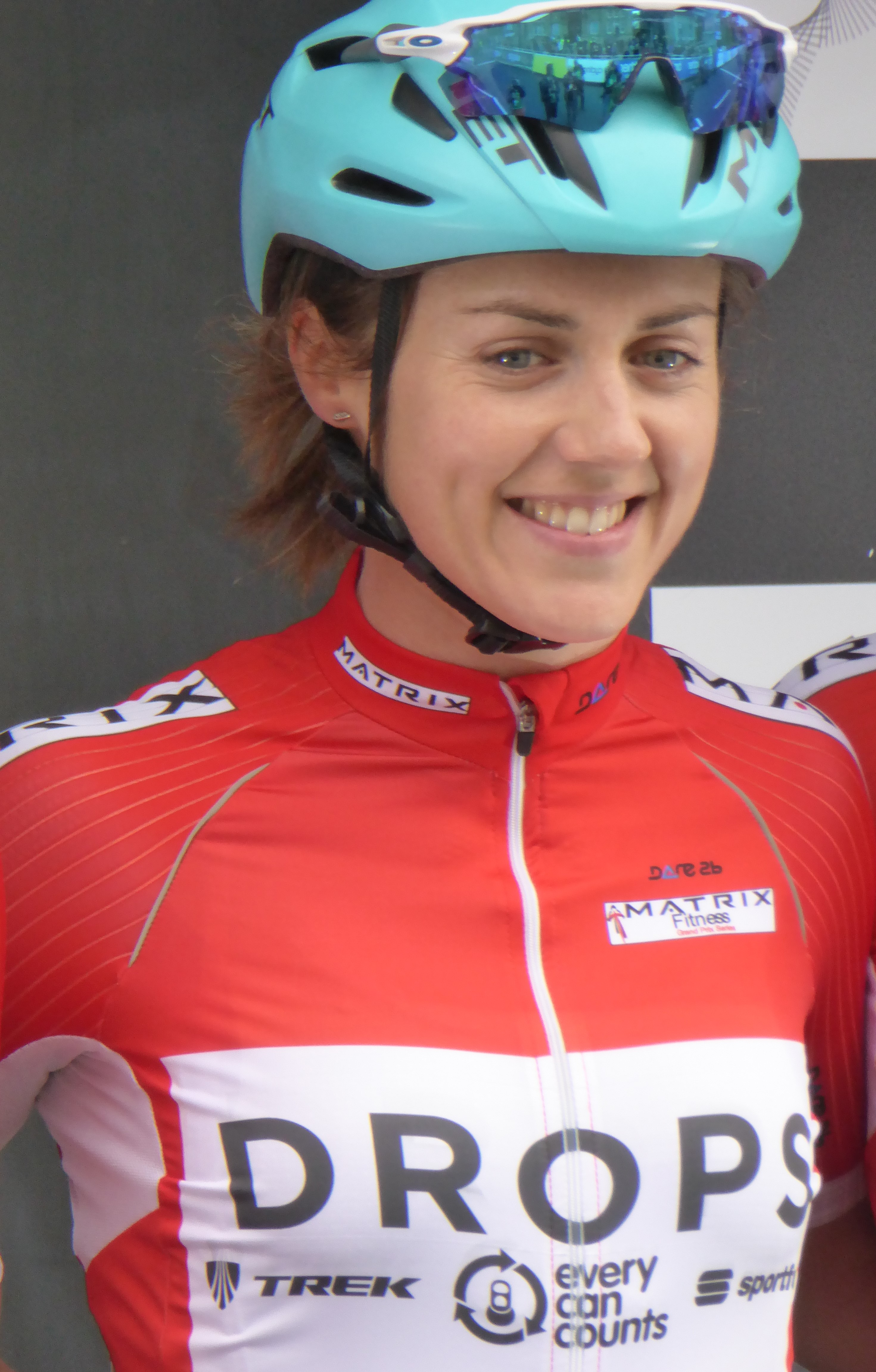 Rebecca Durrell (Drops), prior to Round 7 of the Matrix Fitness GP Series in Motherwell, on 23 May 2017.